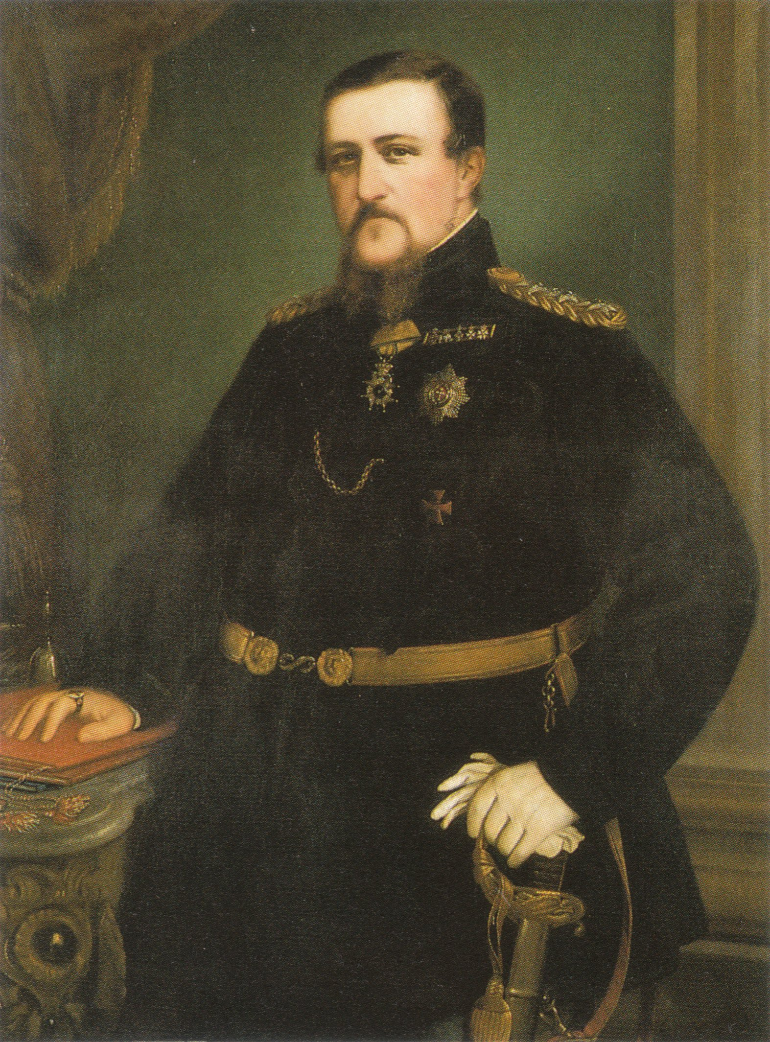 Depicted person: Frederick VII of Denmark.